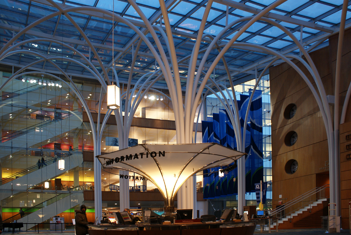 Indianapolis-Marion County Public Library; Central Library Atrium